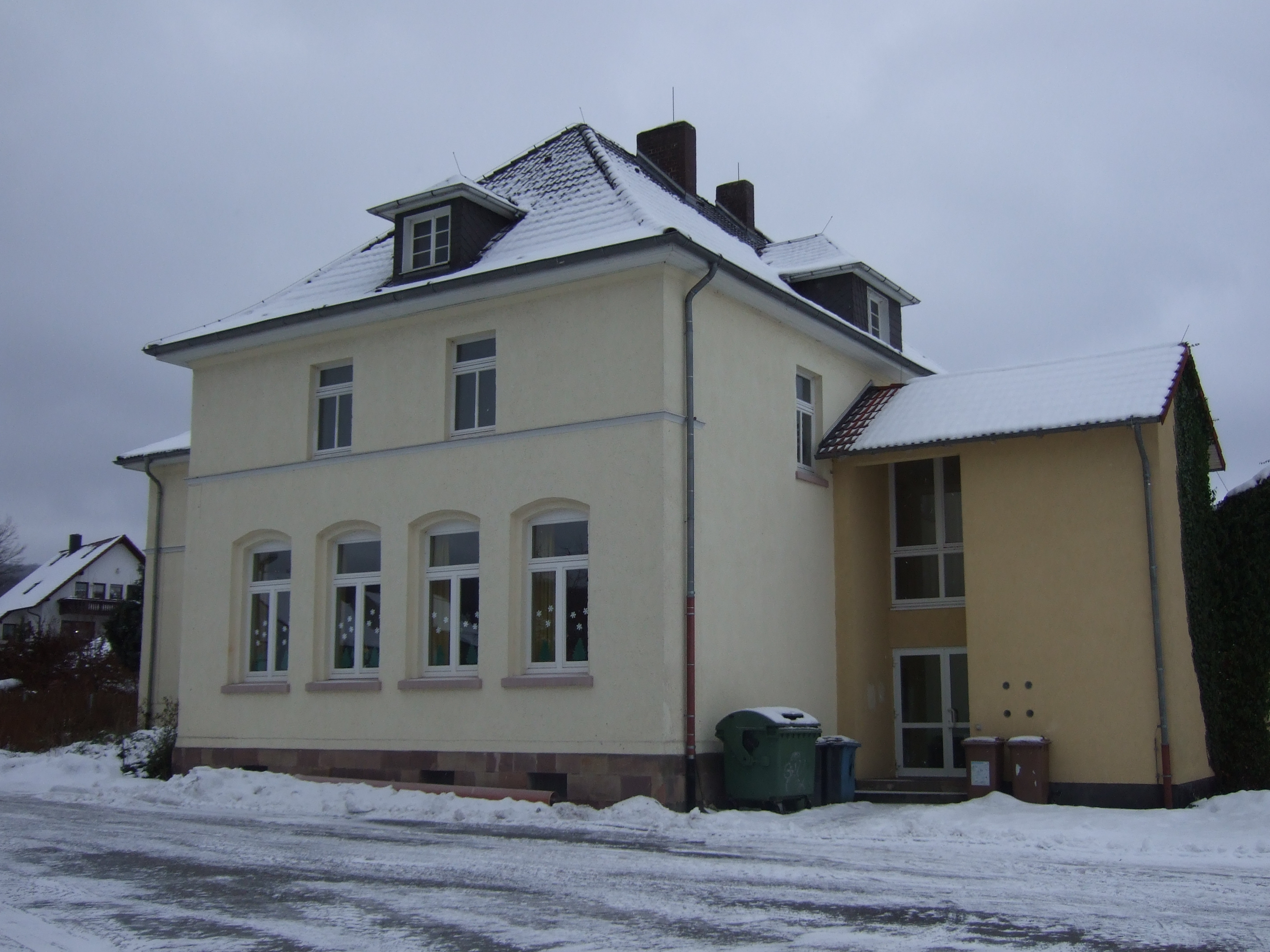 old school söhrewald